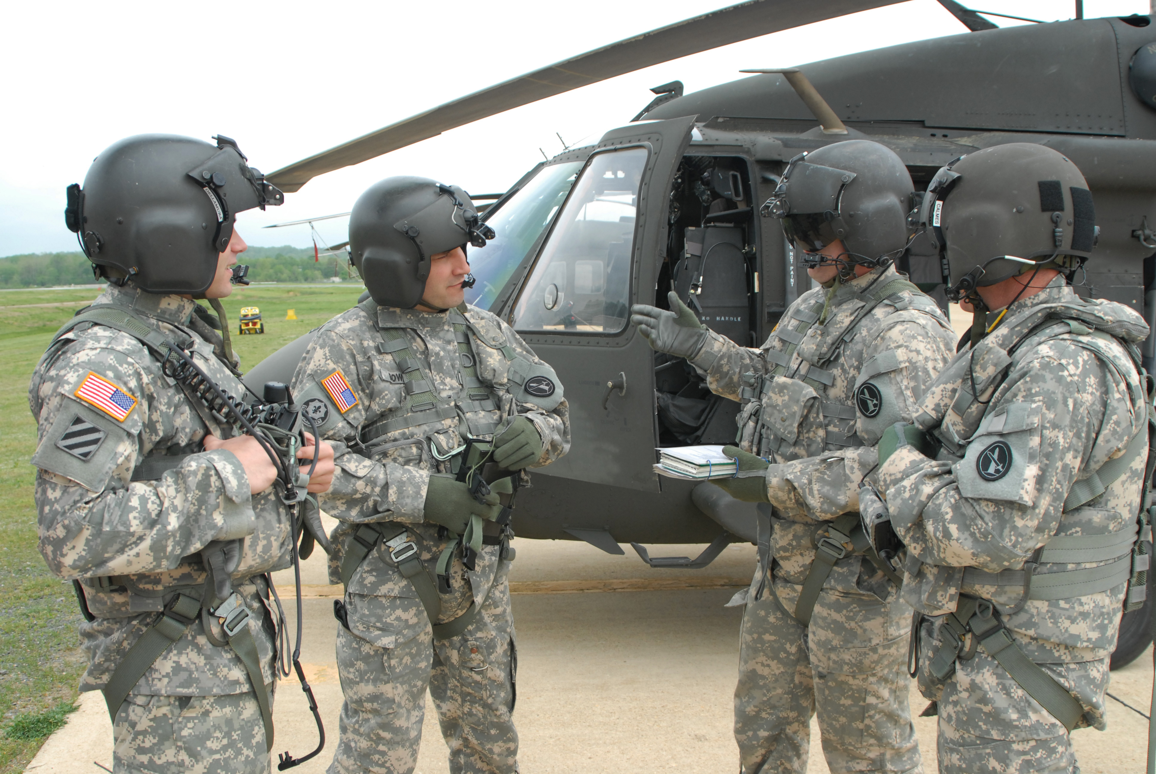 A group of United States Army soldiers wearing the U.S. Army Aircrew Combat Uniform (A2CU) in August 2009.